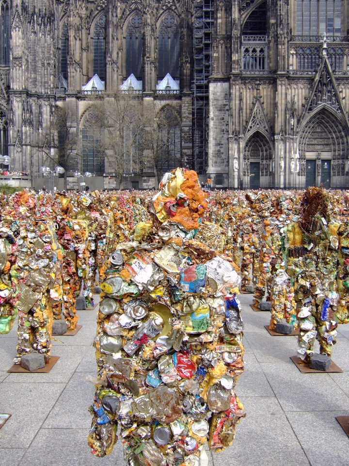 Trash people in Köln/Germany by HA Schult